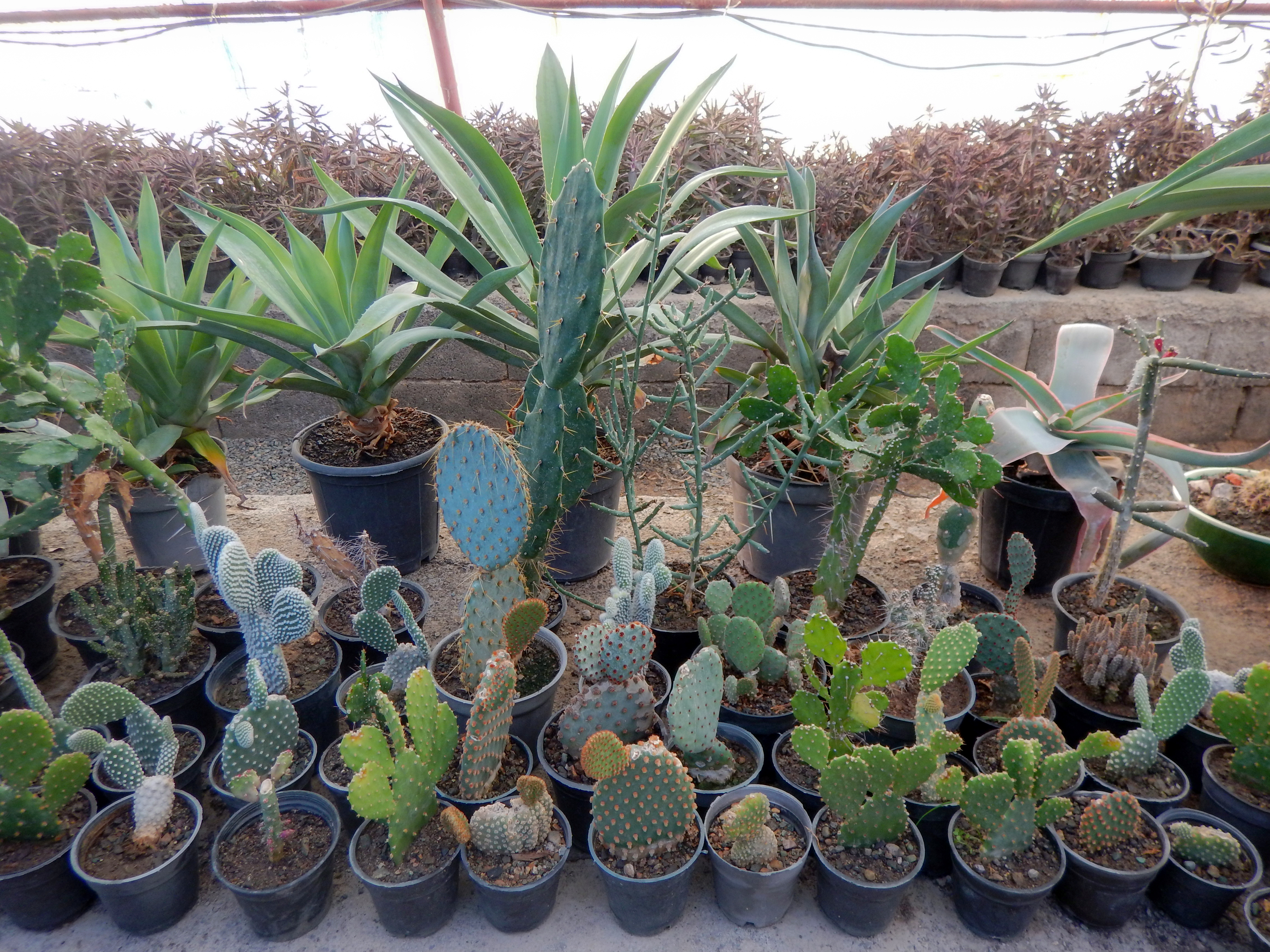 A cactus (plural: cacti, cactuses, or cactus) is a member of the plant family Cactaceae,[Note 1] a family comprising about 127 genera with some 1750 known species of the order Caryophyllales. The word "cactus" derives, through Latin, from the Ancient Greek κάκτος, kaktos, a name originally used by Theophrastus for a spiny plant whose identity is not certain. Bân-lâm-gú: Sian-jîn-chióng (-chiúⁿ/-chháu, sian-pa-chiúⁿ/-chióng , hoé-hāng-chhì ) sī ha̍k-miâ hō Cactaceae ê to-bah si̍t-bu̍t (succulent plant), sù-siông chèng lâi khoàⁿ súi, m̄-koh ia̍h ū lâi chia̍h--ê. Sian-jîn-chióng sī te̍k-sû, kî-khá ê si̍t-bu̍t, te̍k-pia̍t sek-èng hui-siông ta-sò, sio-lo̍h ê khoân-kéng.